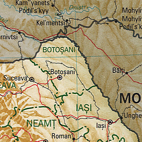 Map of Botoșani County, Romania.